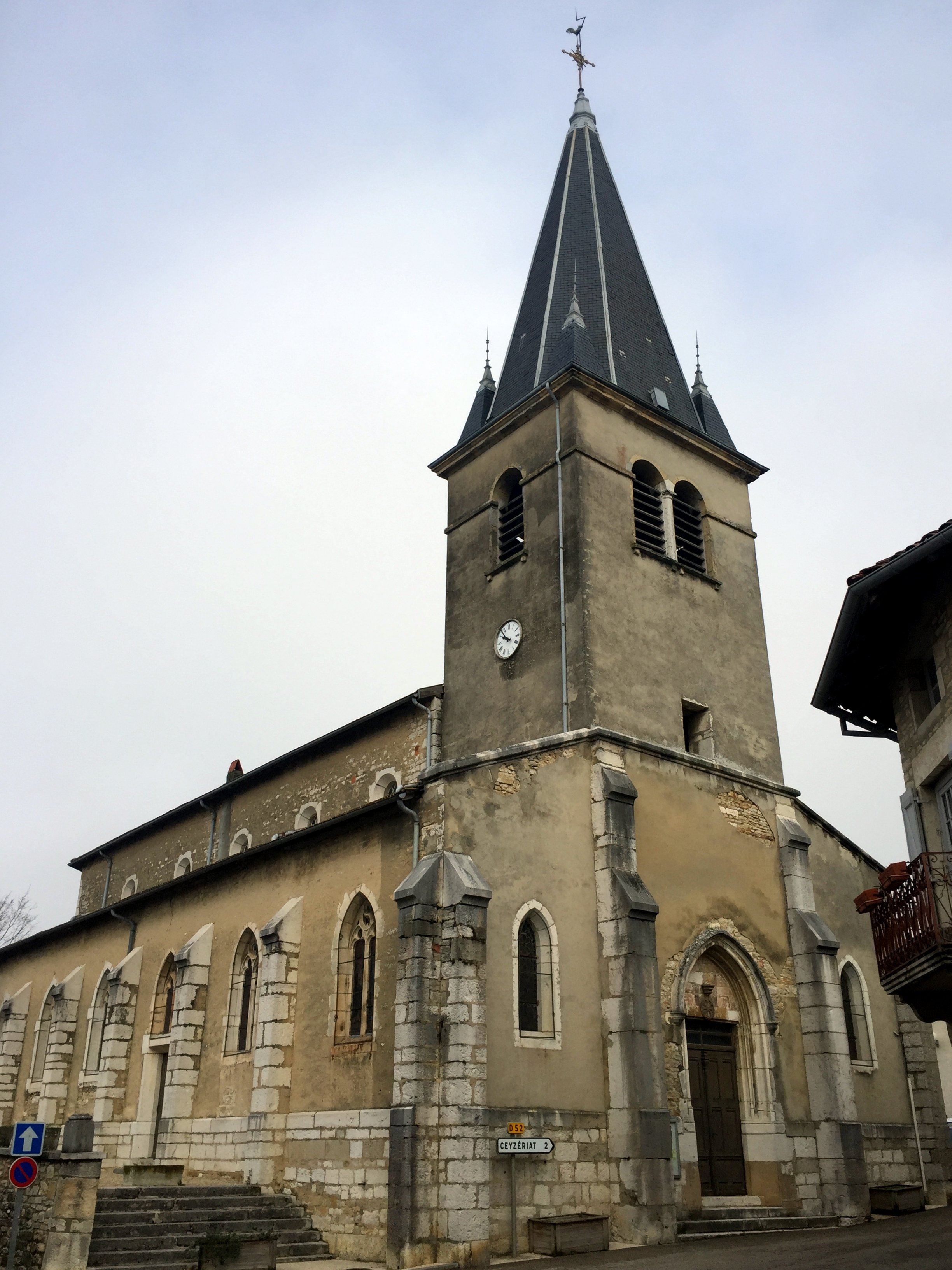 This photograph was taken with an iPhone 6